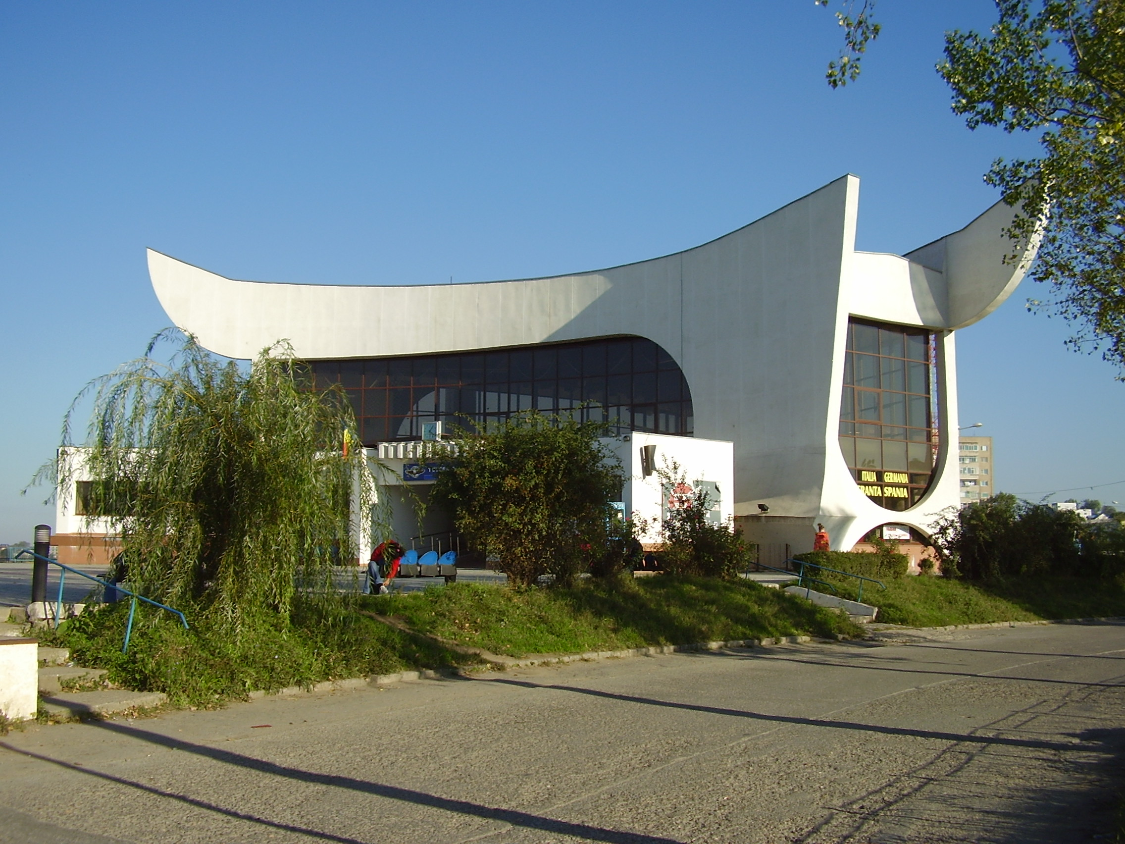 The main railway station in Tulcea, Romania